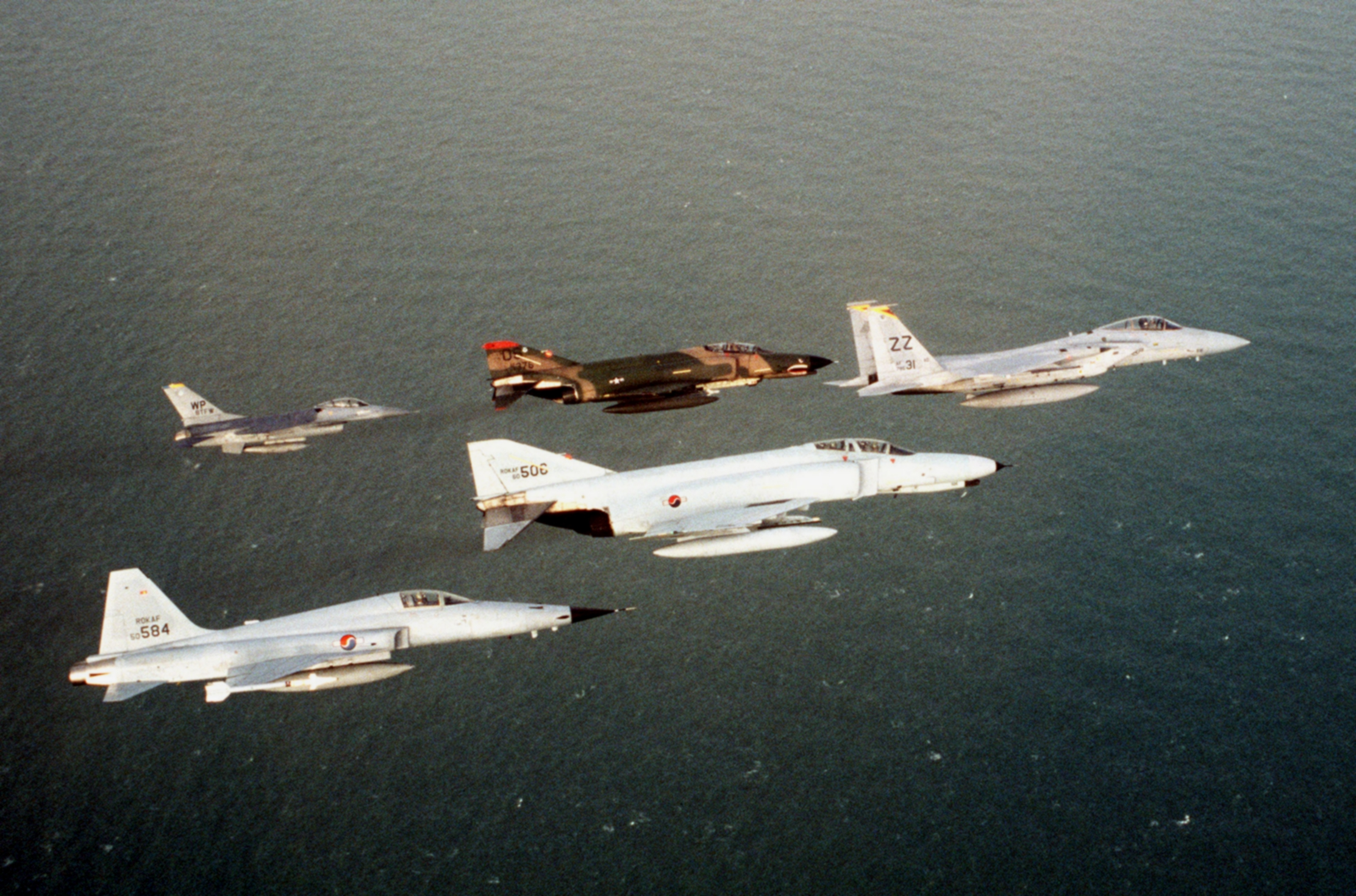 A South Korean Air Force Northrop F-5E Tiger II aircraft and a McDonnell Douglas F-4E Phantom II aircraft fly in formation with a U.S. Air Force General Dynamics F-16A Fighting Falcon, an F-4E (both from the 51st Tactical Fighter Wing), and a McDonnell Douglas F-15A Eagle aircraft (from the 18th TFW) during the joint US/South Korean Exercise "Team Spirit '84" on 15 March 1984.